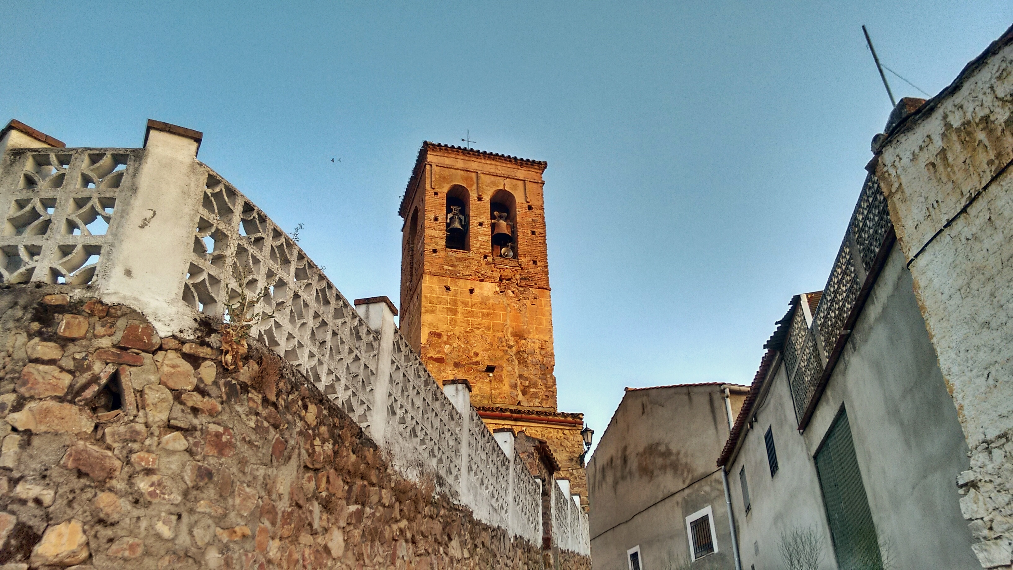 Church's tower of Helechosa de los Montes.